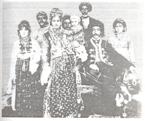 Agha of 18 Yezidish villages Jangir Agha with his family